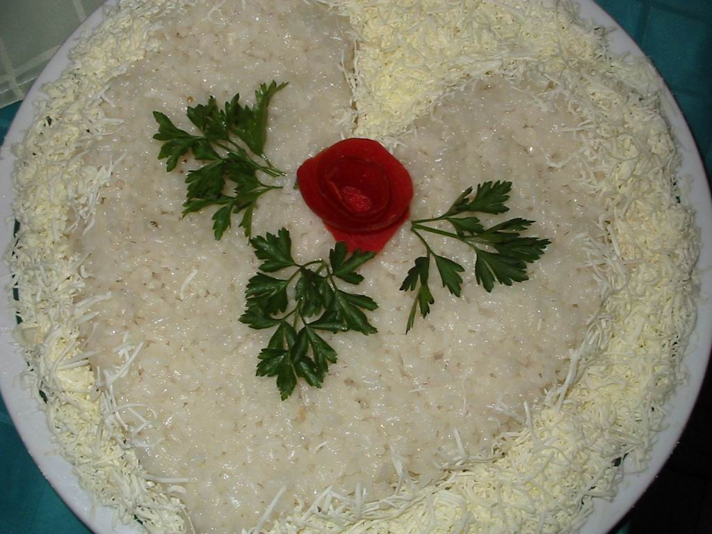 Pilaf